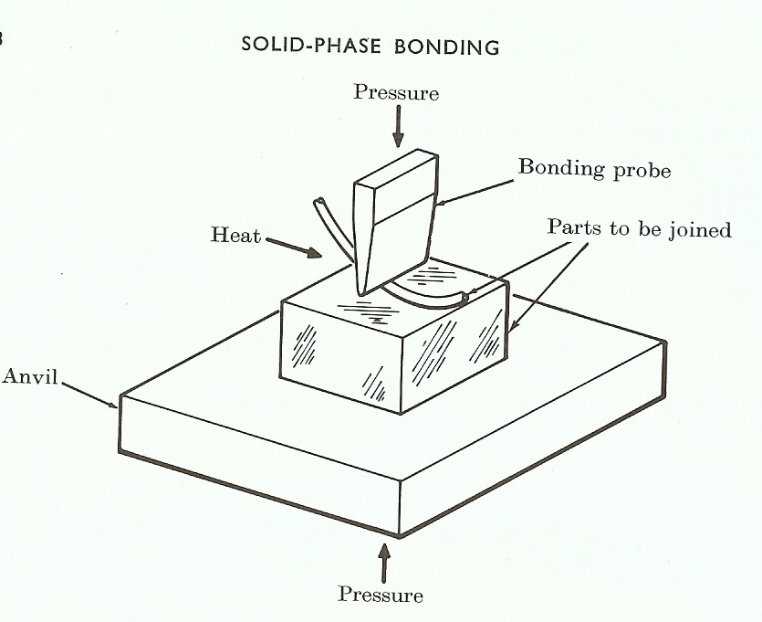 a hard bonding tool forming a solid state bond between a wire and metallized surface